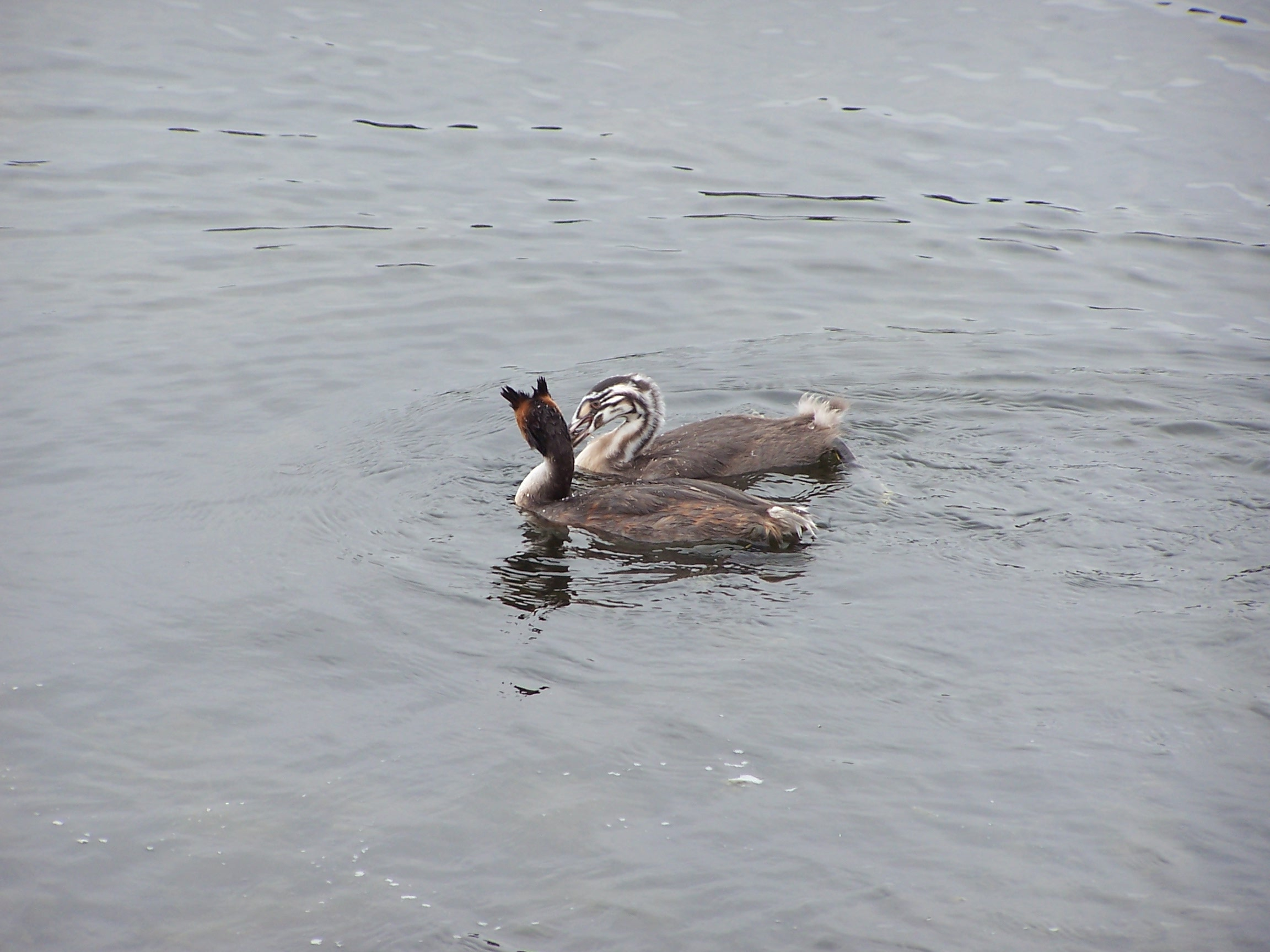 Great Crested Grebe (Podiceps cristatus), feeding.